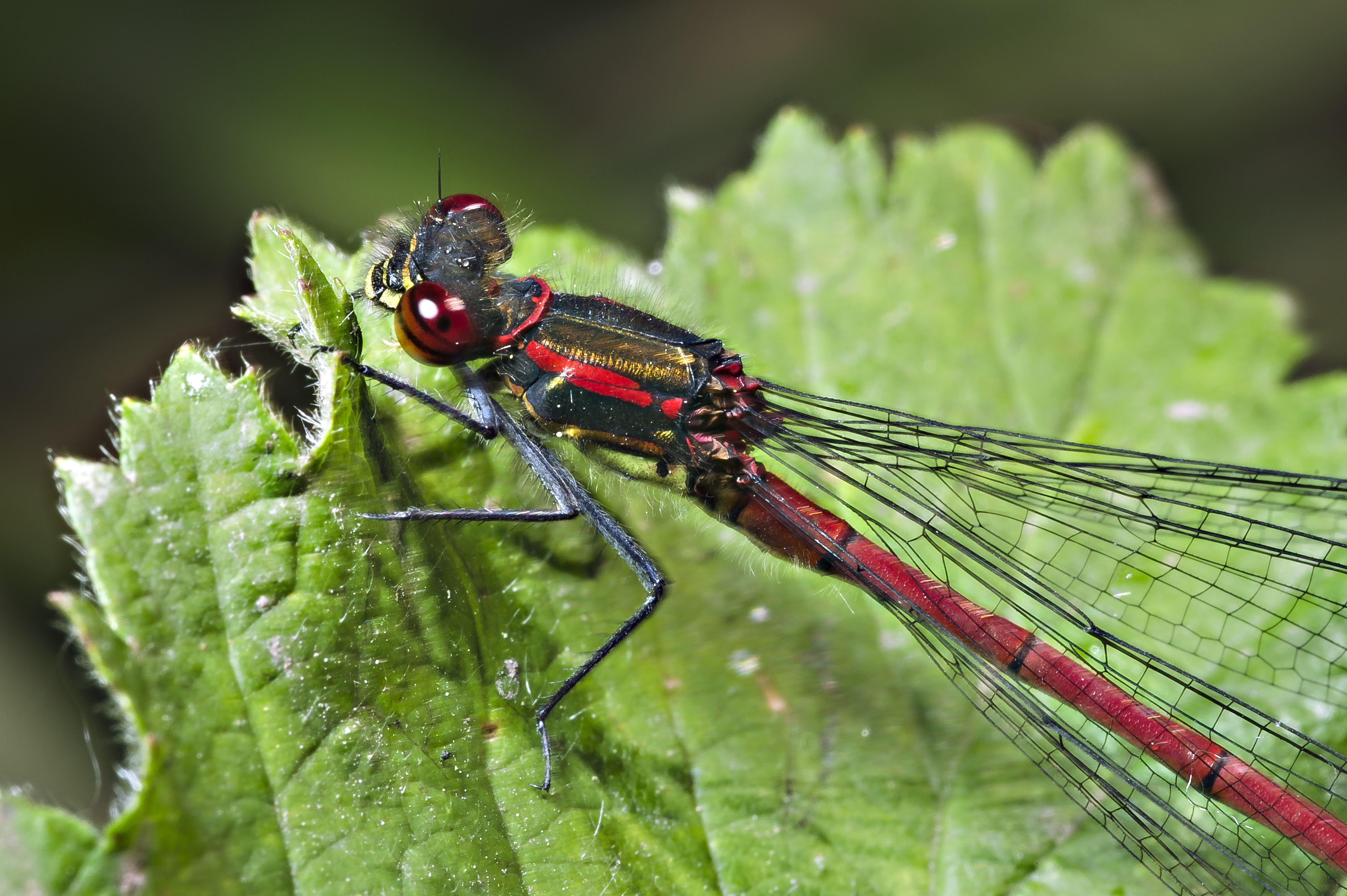 Large red damselfly (Pyrrhosoma nymphula), male, picture taken near Stuttgart, Germany